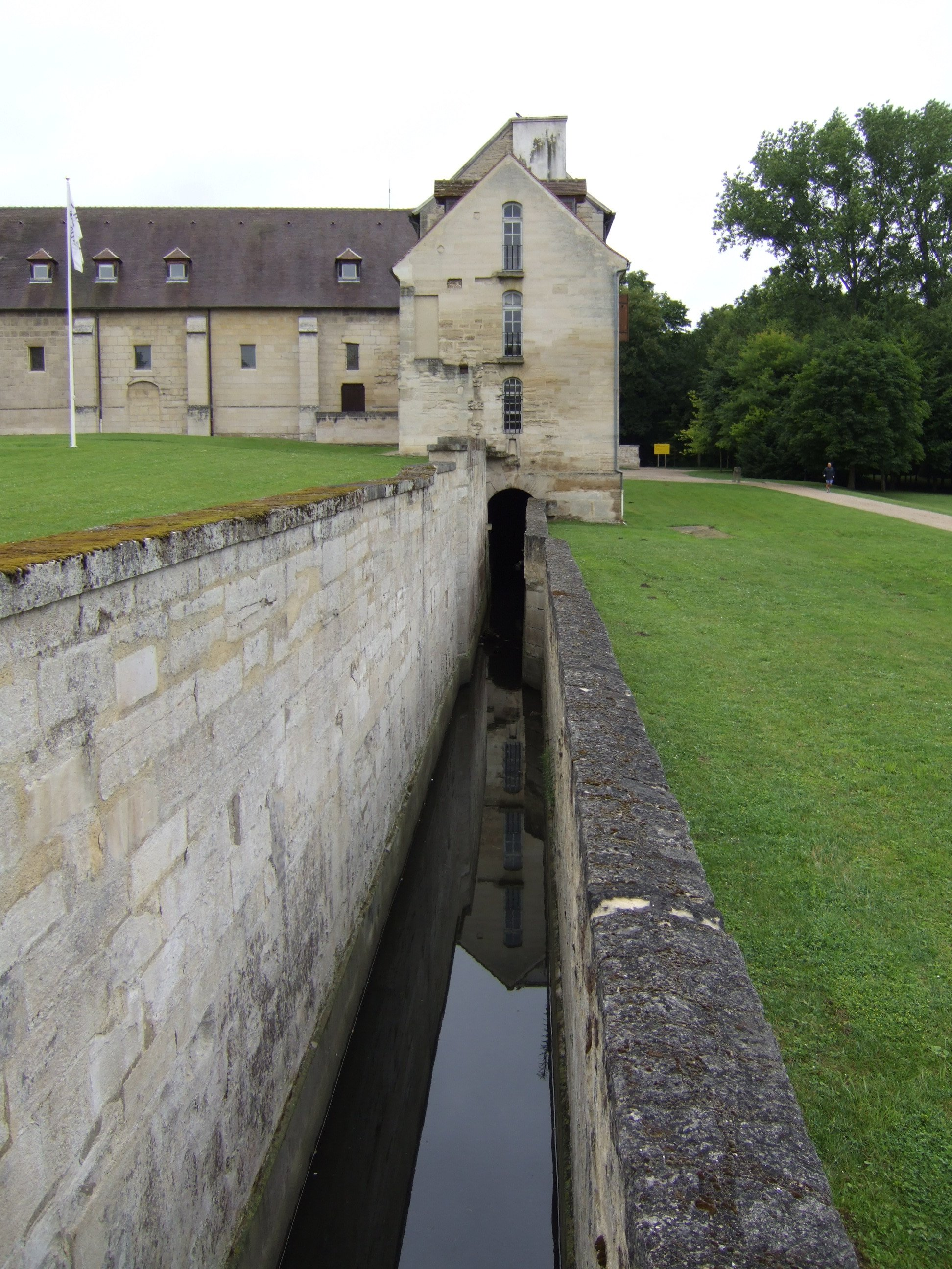 Vaulted sewer and open ditch of Maubuisson abbey (France)